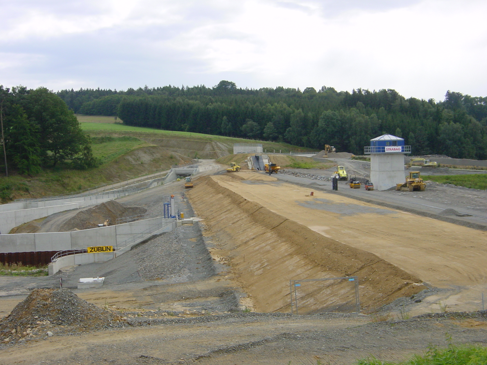 Rennersdorf retention pond, dam construction site, Saxony, Germany